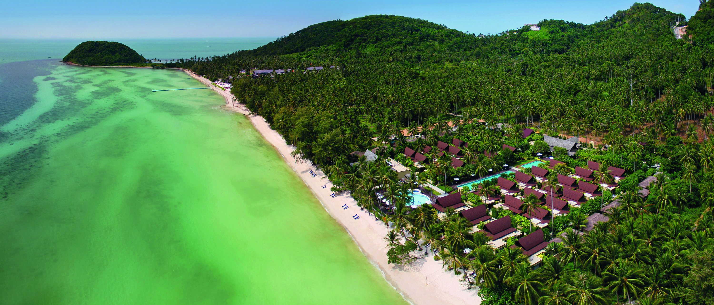 Mövenpick Resort Laem Yai Beach Samui